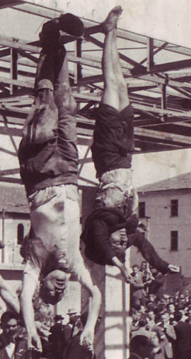 The dead body of Benito Mussolini next to his mistress Claretta Petacci, on display in Milan on 29 April 1945, in Piazzale Loreto, the same place that the fascists had displayed the bodies of fifteen Milanese civilians a year earlier after executing them in retaliation for resistance activity. The photograph is by Vincenzo Carrese. The bodies, from left to right, are: Benito Mussolini Claretta Petacci